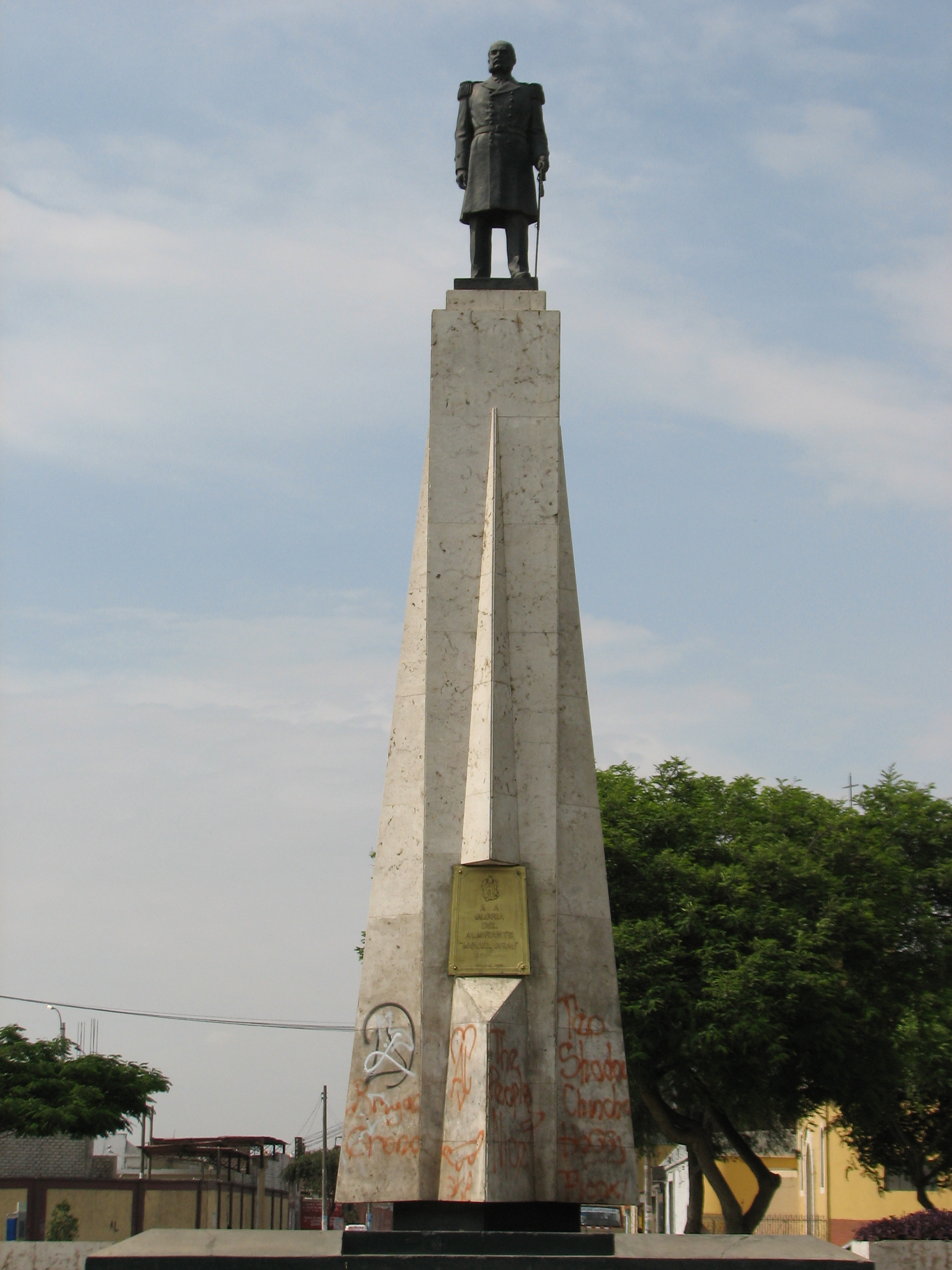 Statue of Miguel Grau — on Ovalo Grau in Trujillo, Peru.